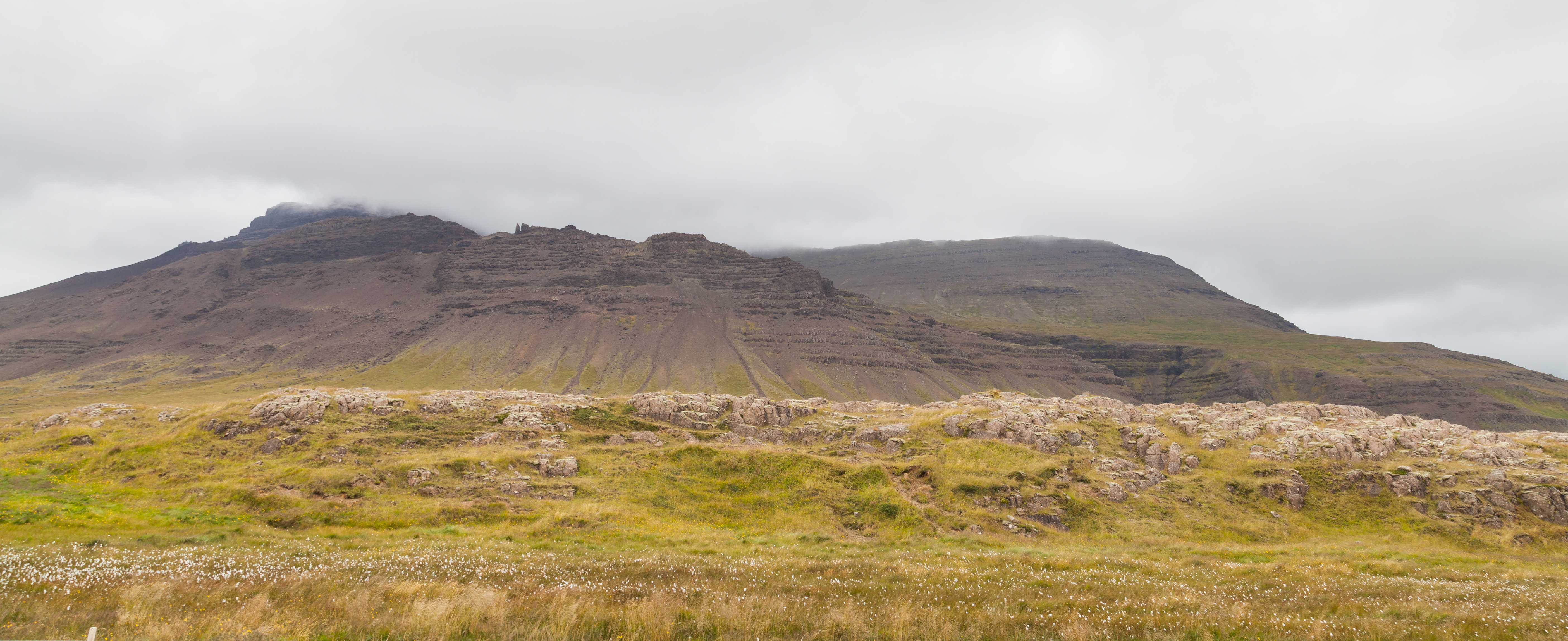 Mountain in Hnappadalur, Vesturland, Iceland